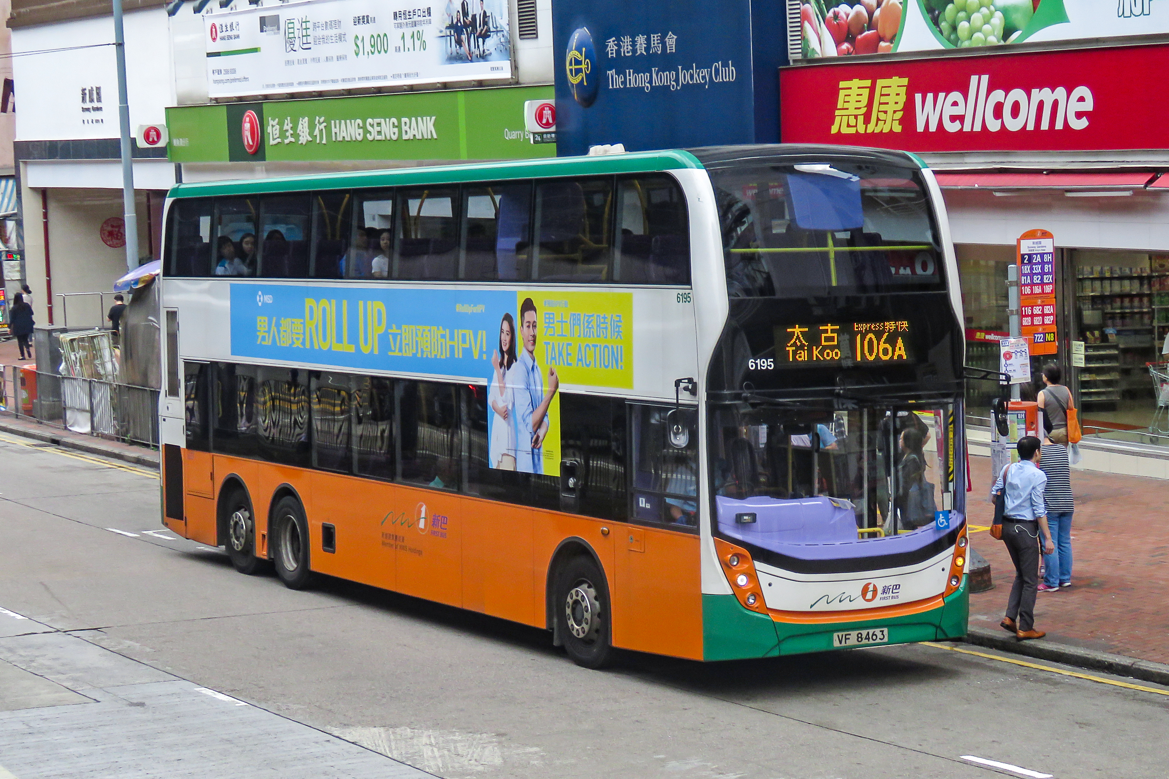 106A, express to Tai Koo.